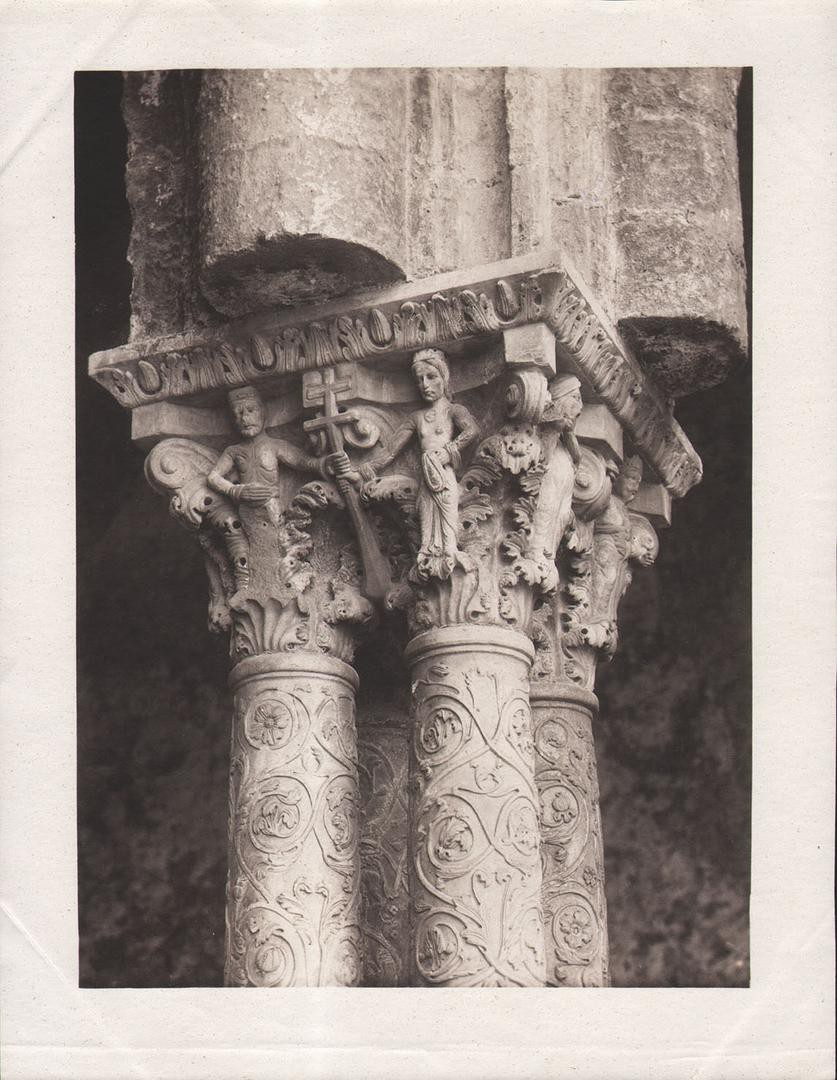 Wilhelm von Gloeden (1856-1931), Capital from the cloister of Monreale in Palermo. Catalogue number: 1106. On the revers: Gloeden's stamp, and copyright year (1903).